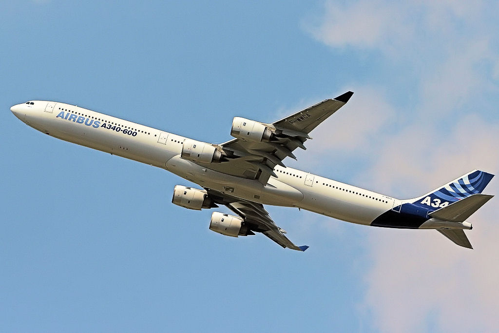 A340 - Farnborough 2006